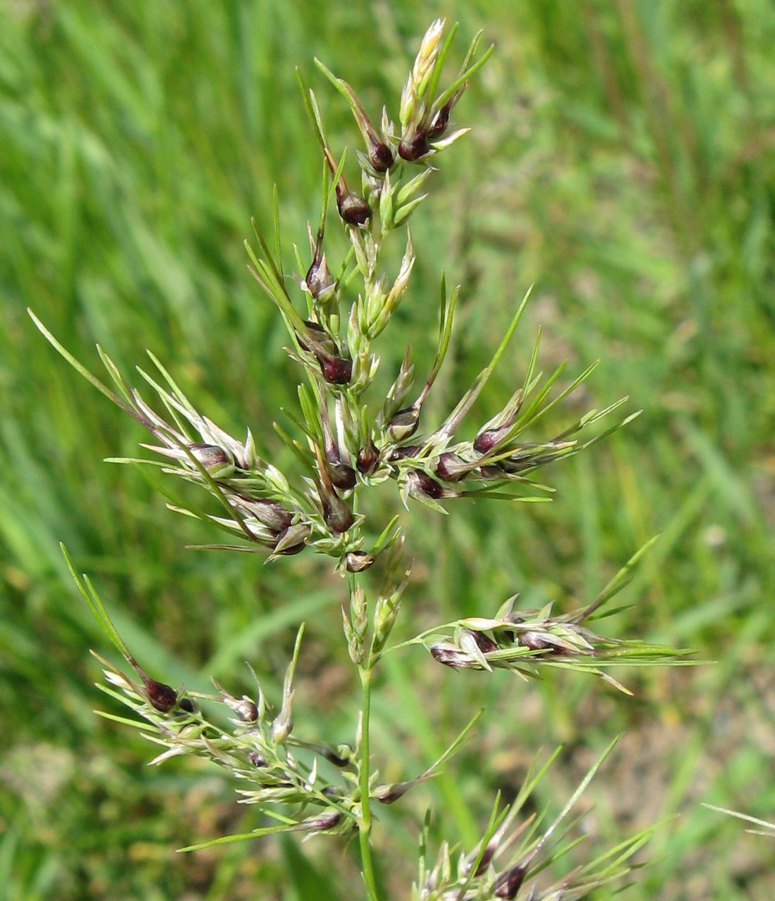 Okanagan valley, British Columbia, roadside